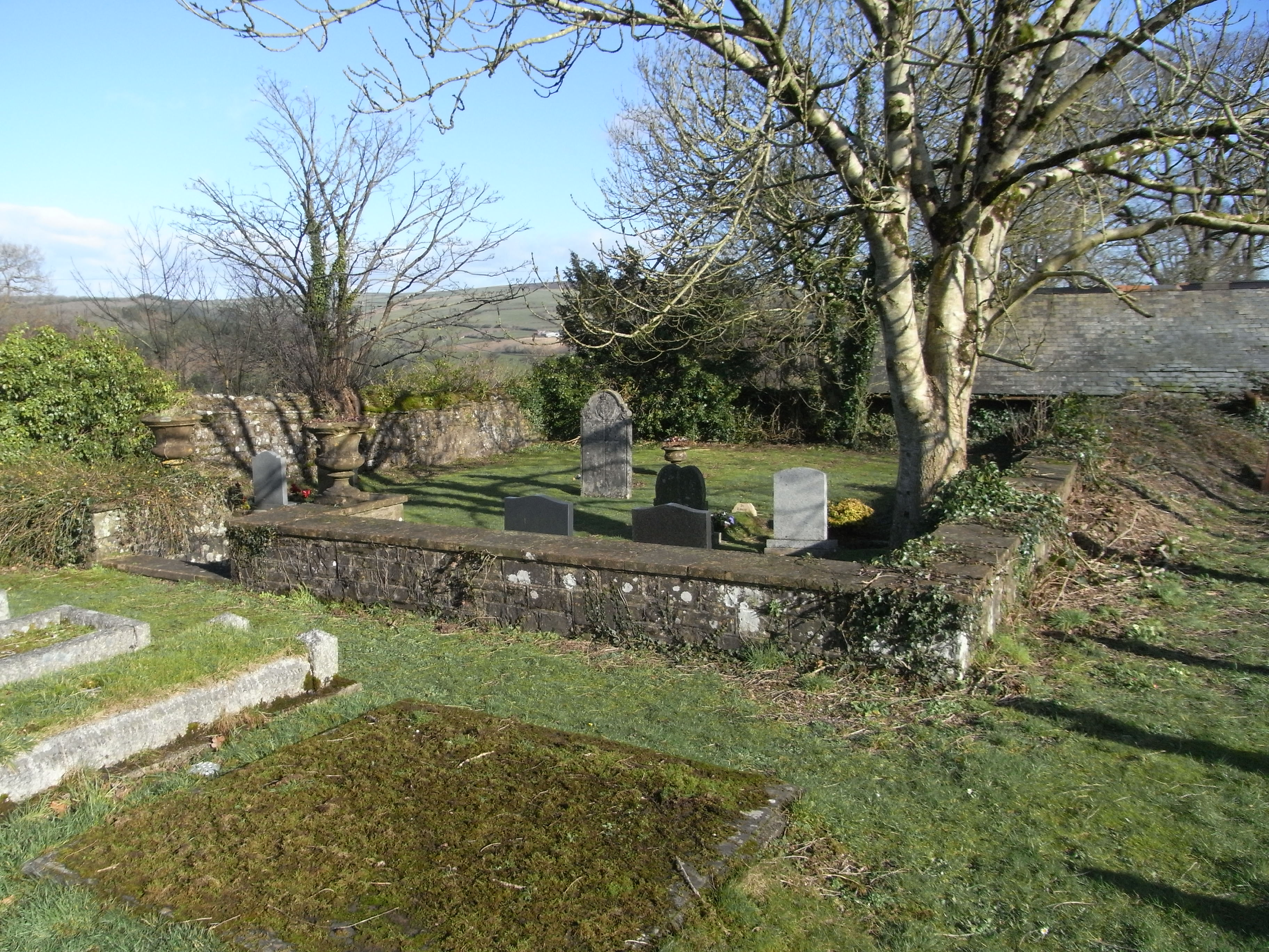 Bampfylde Memorial Garden, North Molton churchyard, Devon. Created in memory of Hon. (Coplestone) John de Grey Warwick Bampfylde (1914–1936), whose gravestone stands in the centre of the small lawn, only son and heir apparent George Wentworth Warwick Bampfylde, 4th Baron Poltimore (1882–1965) of Poltimore and Court House, North Molton (the roof of an outbuilding of which is visible here behind (east of) the garden). He was an officer in the Royal Horseguards and predeceased his father, having died aged 23 in a horse-racing accident shortly after his return from representing his country at the 1936 Berlin Olympic Games in the fencing team. His death caused his father to lose heart and prompted him to emigrate to Rhodesia and to abandon his North Molton estate, held by his ancestors for 400 years, to which he never returned. In recent years the garden has received burials of villagers of North Molton, as space in the churchyard has become scarce.